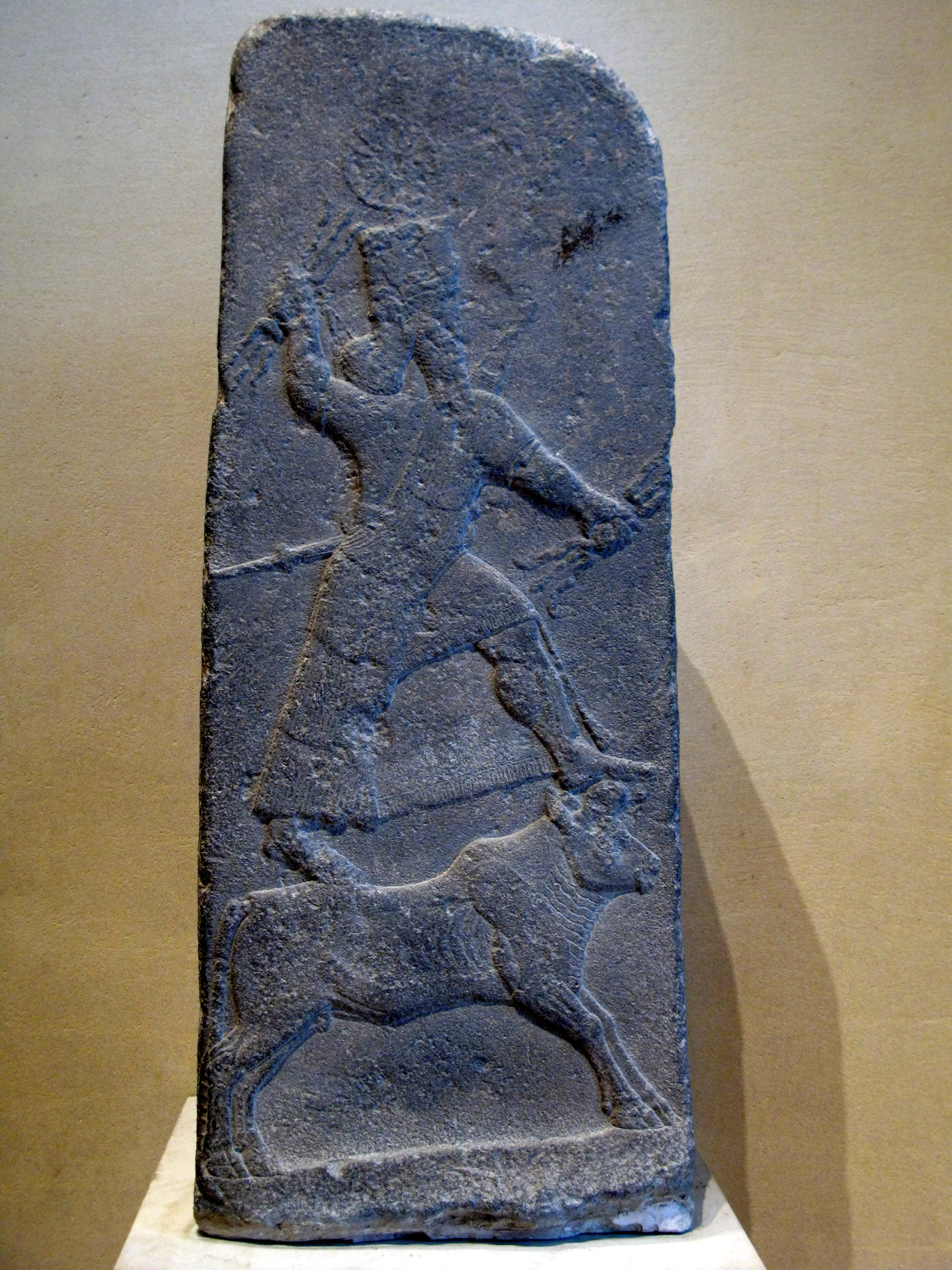 ArtistUnknownDescription Stele of god Adad on a bull with a thunderbolt in hand [1] Reign of Teglat-phalasar III, circa 744 - 727 BC Arslan Tash Basalt Dimensions1.36 m. high, 0.54 m. wide, 0.42 m deepCurrent location (Inventory)Louvre Museum Native nameMusée du LouvreLocationParisCoordinates48° 51′ 37″ N, 2° 20′ 15″ E Established1793Website control : Q19675 VIAF: 257711507 ISNI: 0000 0001 2260 177X ULAN: 500125189 LCCN: n80020283 NLA: 35912436 WorldCat Richelieu Rez-de-chaussée Mésopotamie - Syrie du Nord. Assyrie : Til Barsip, Arslan Tash, Nimrud, Ninive Salle 6Accession numberAO 13092Credit lineFound by F. Thureau-Dangin and A. Barrois in 1928Source/PhotographerRama Stele of god Adad on a bull with a thunderbolt in hand [1] Reign of Teglat-phalasar III, circa 744 - 727 BC Arslan Tash Basalt